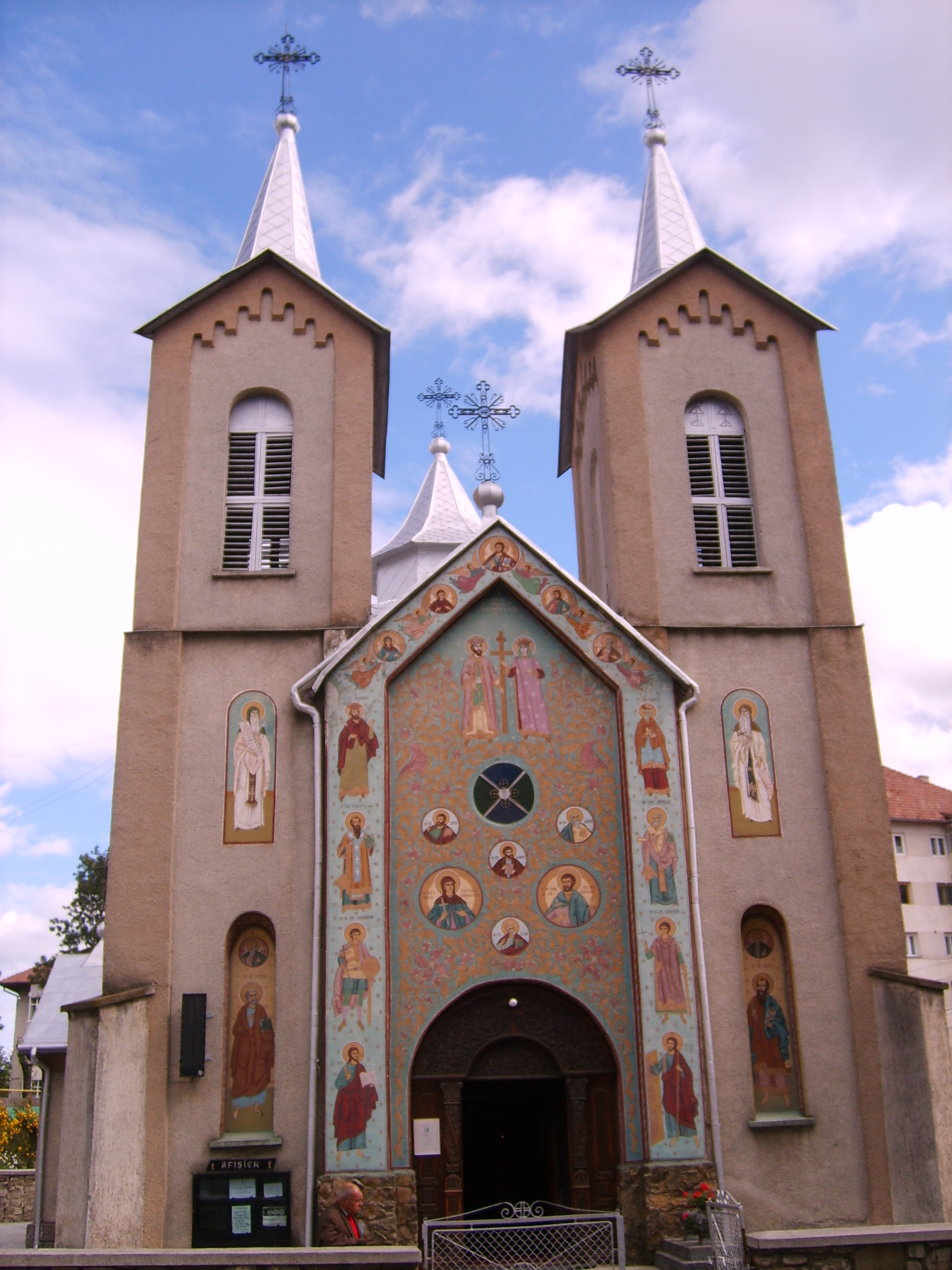 An orthodox church in Gura Humorului